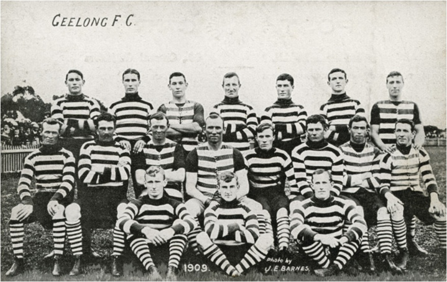 Team photo of the Geelong Football Club in 1909